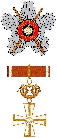 The Grand Cross of the Order of the Cross of Liberty (Finland), with swords